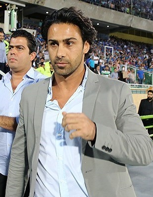 Farhad Majidi